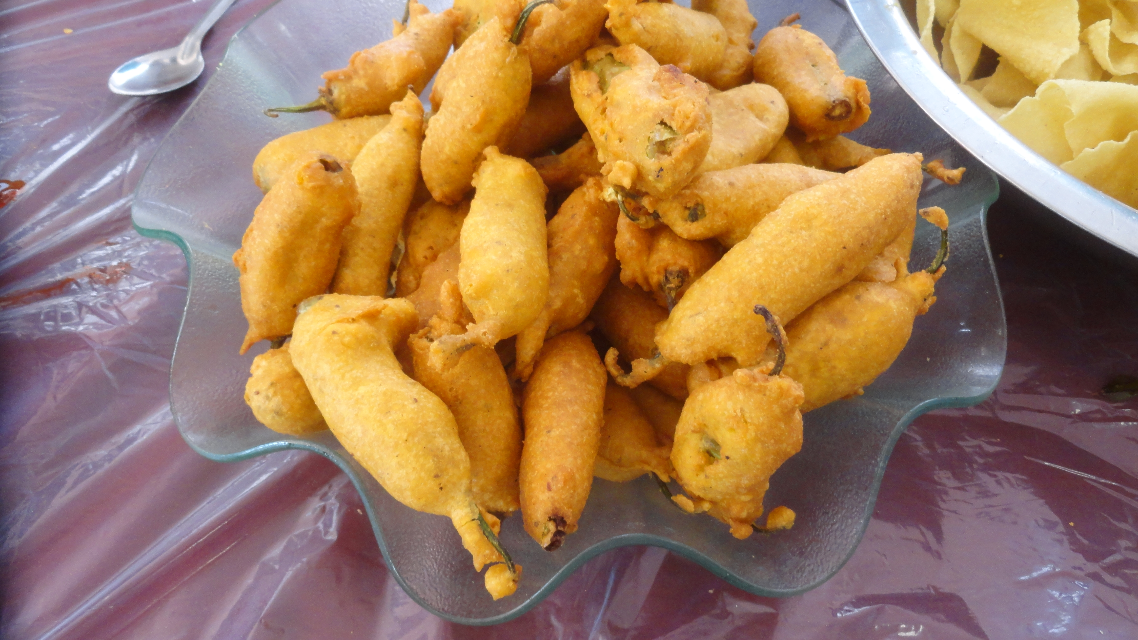 Andhra famous mirchi bajji